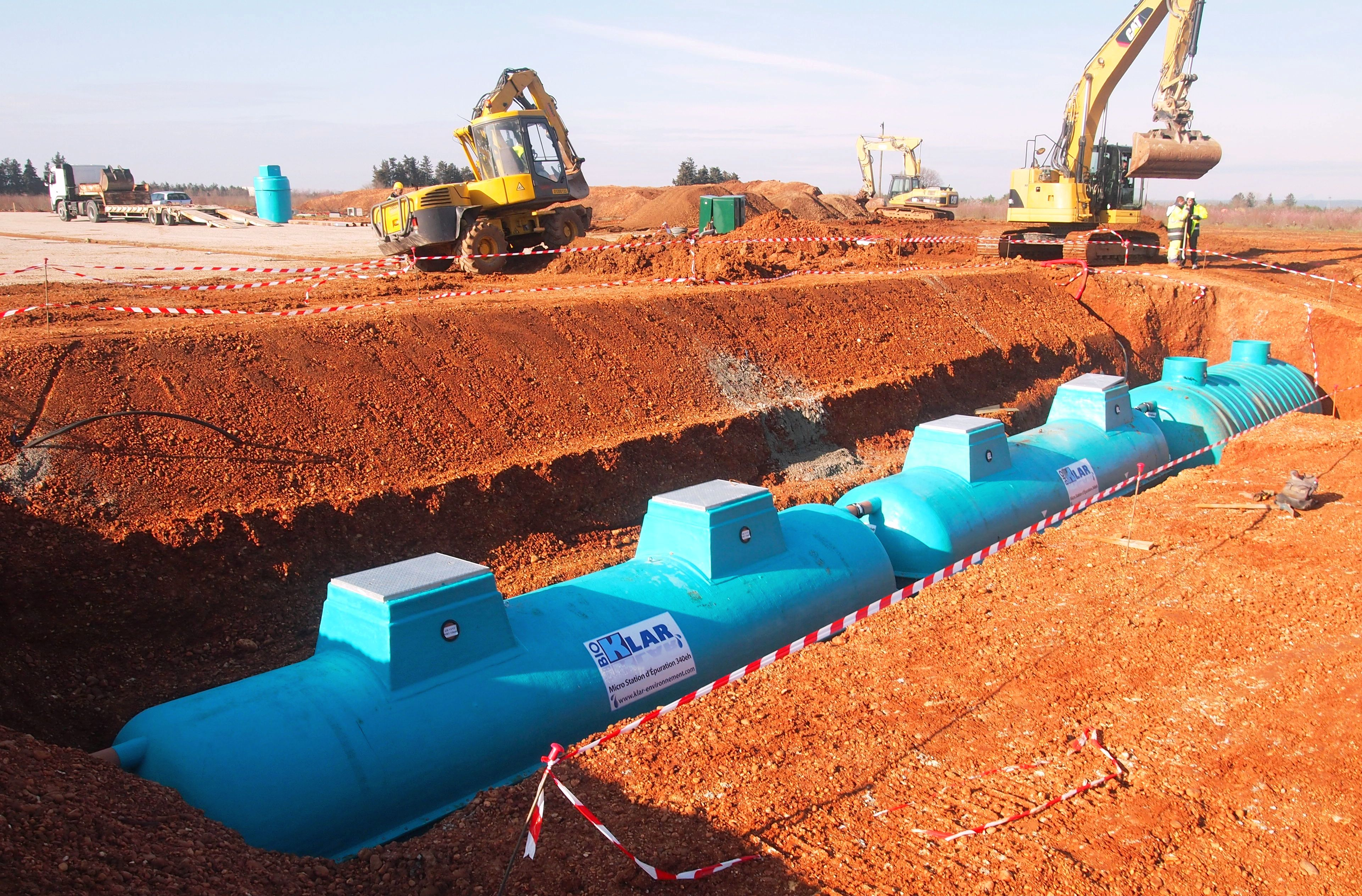 Micro sewage treatment plant semi-collective 340eh manufactured by BioKlar, installed near Nîmes.